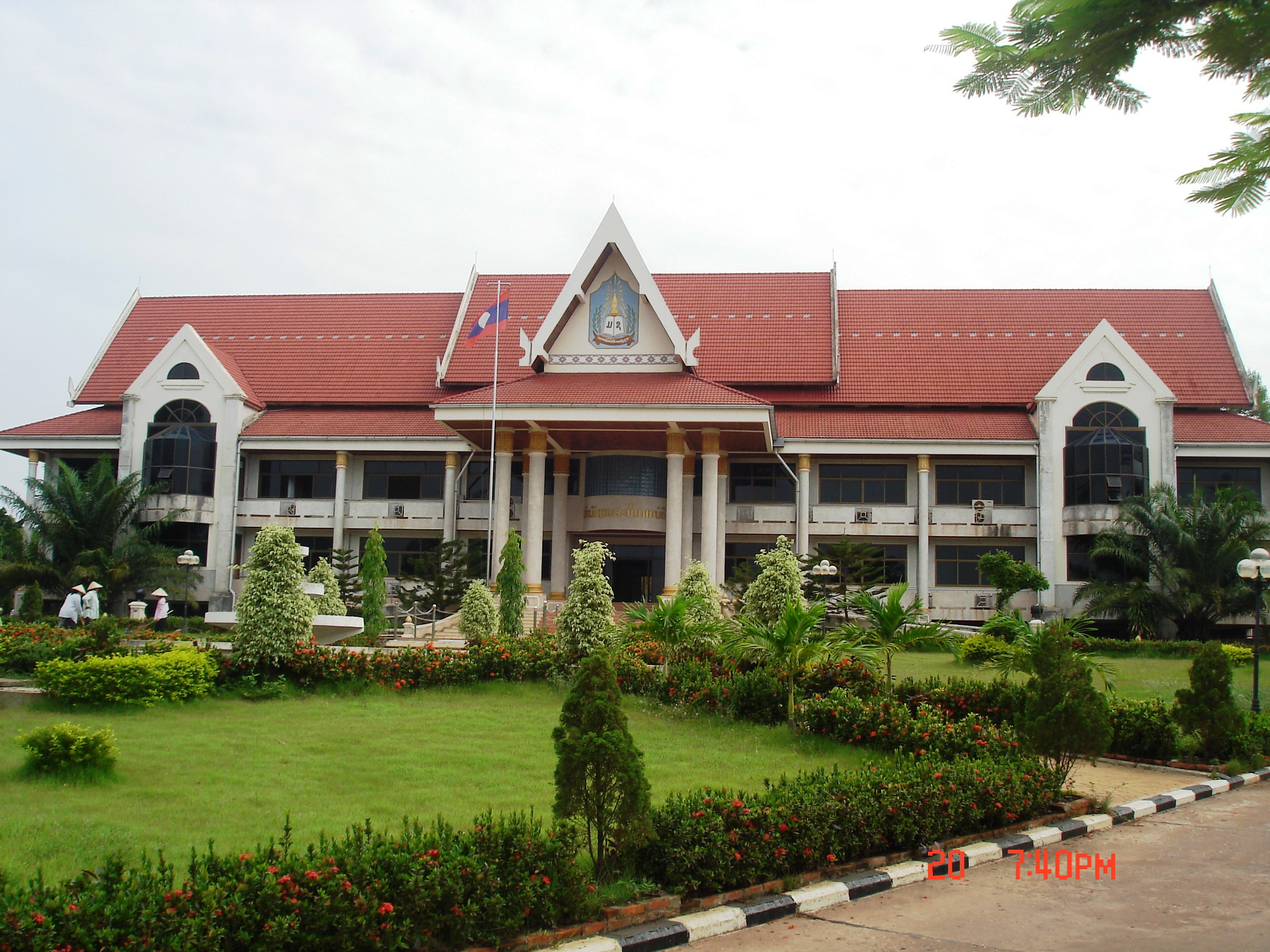 National University of Laos(NUOL)ມ.ຊ